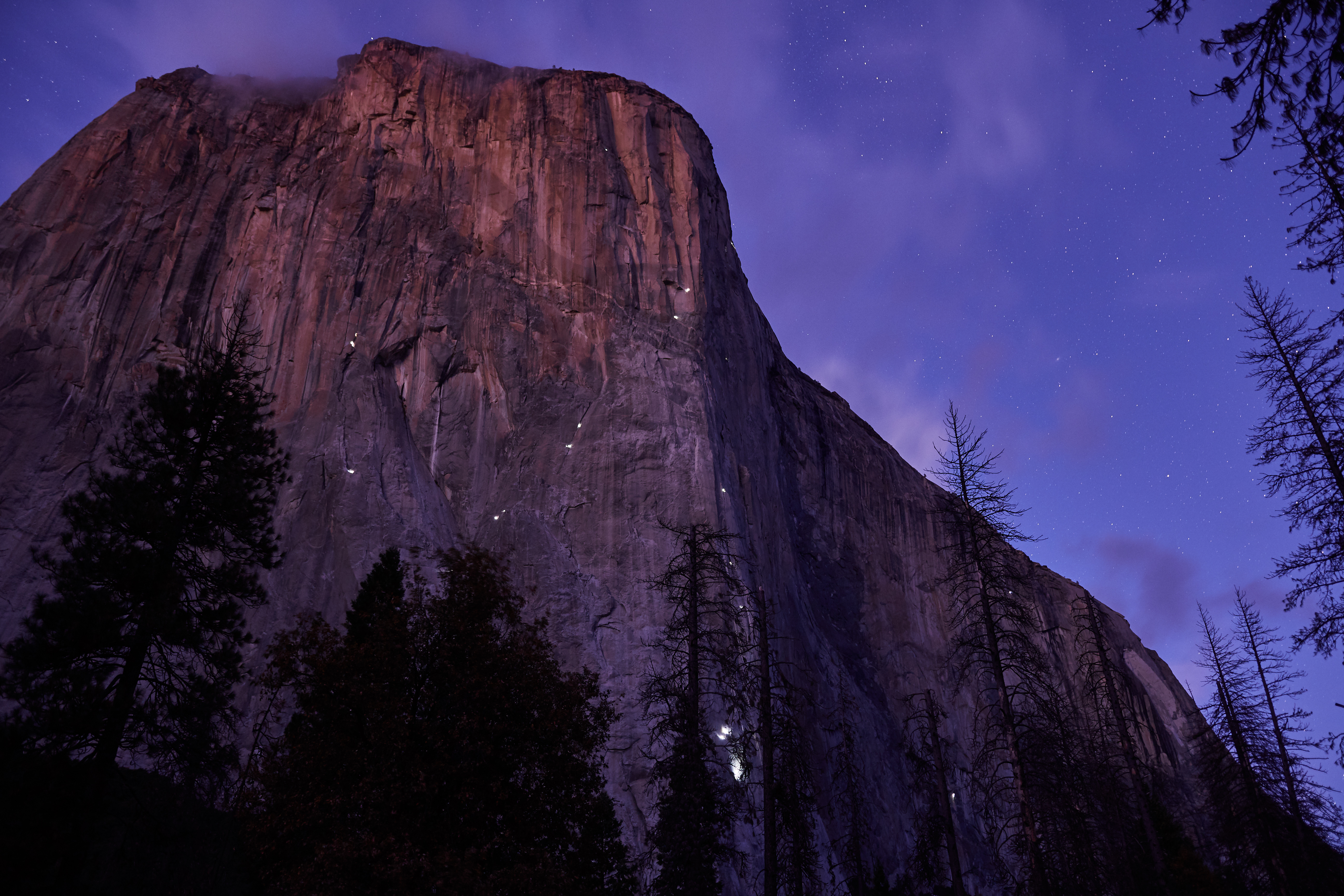 Lights of Climbers staying over night in the wall of El Capitan as seen from Yosemite valley. I only realized by seeing the lights late after dark that the routes take several days for most climbers.